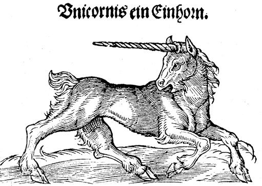 Unicorn. Albertus Magnus, De animalibus, woodcut, Frankfurt am Main, 1545.